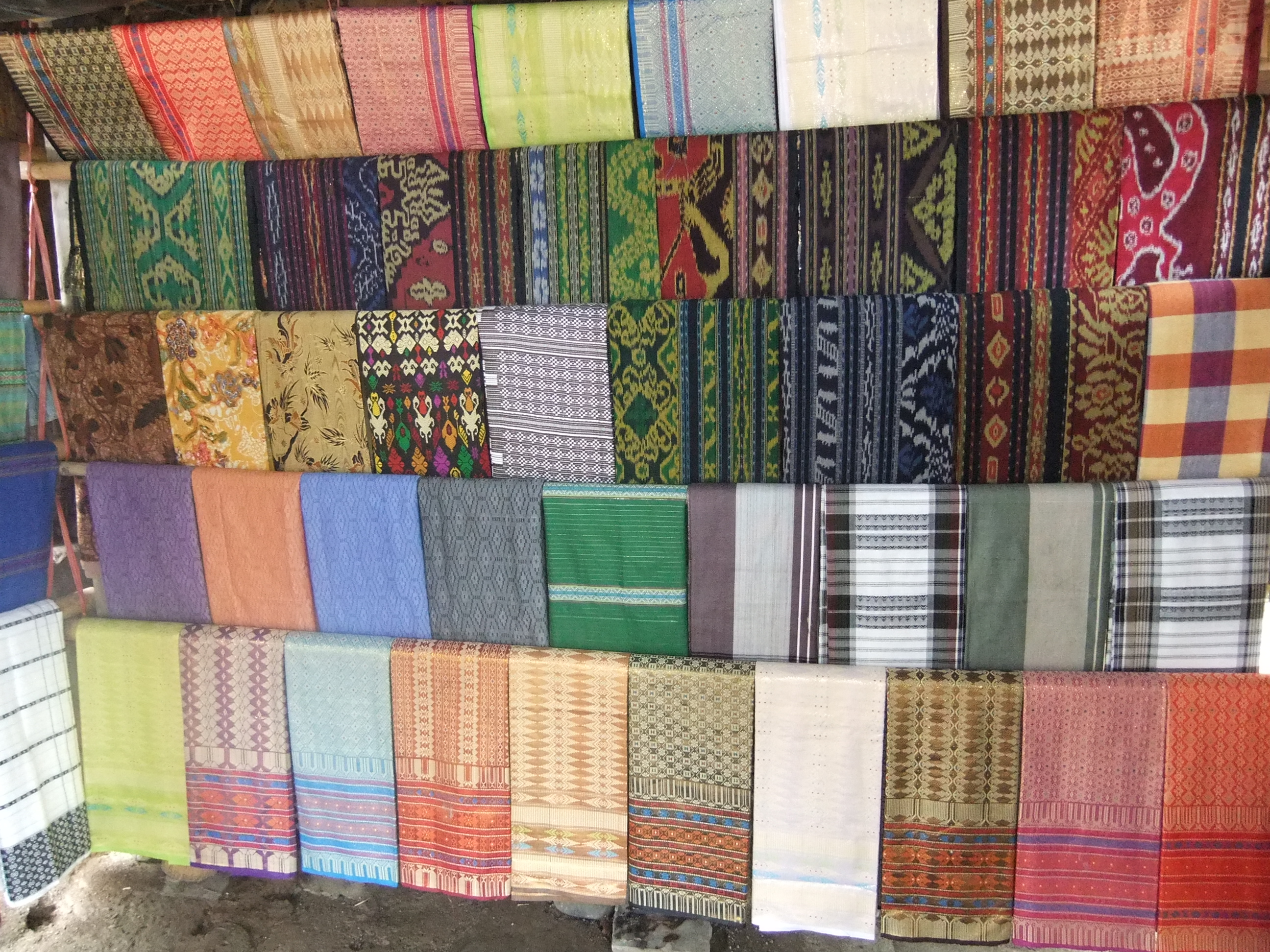 Tenun Ikat Lombok at Sasak Traditional Village in Sade, Lombok, Indonesia